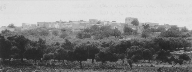 The site of al-Birwa from a distance